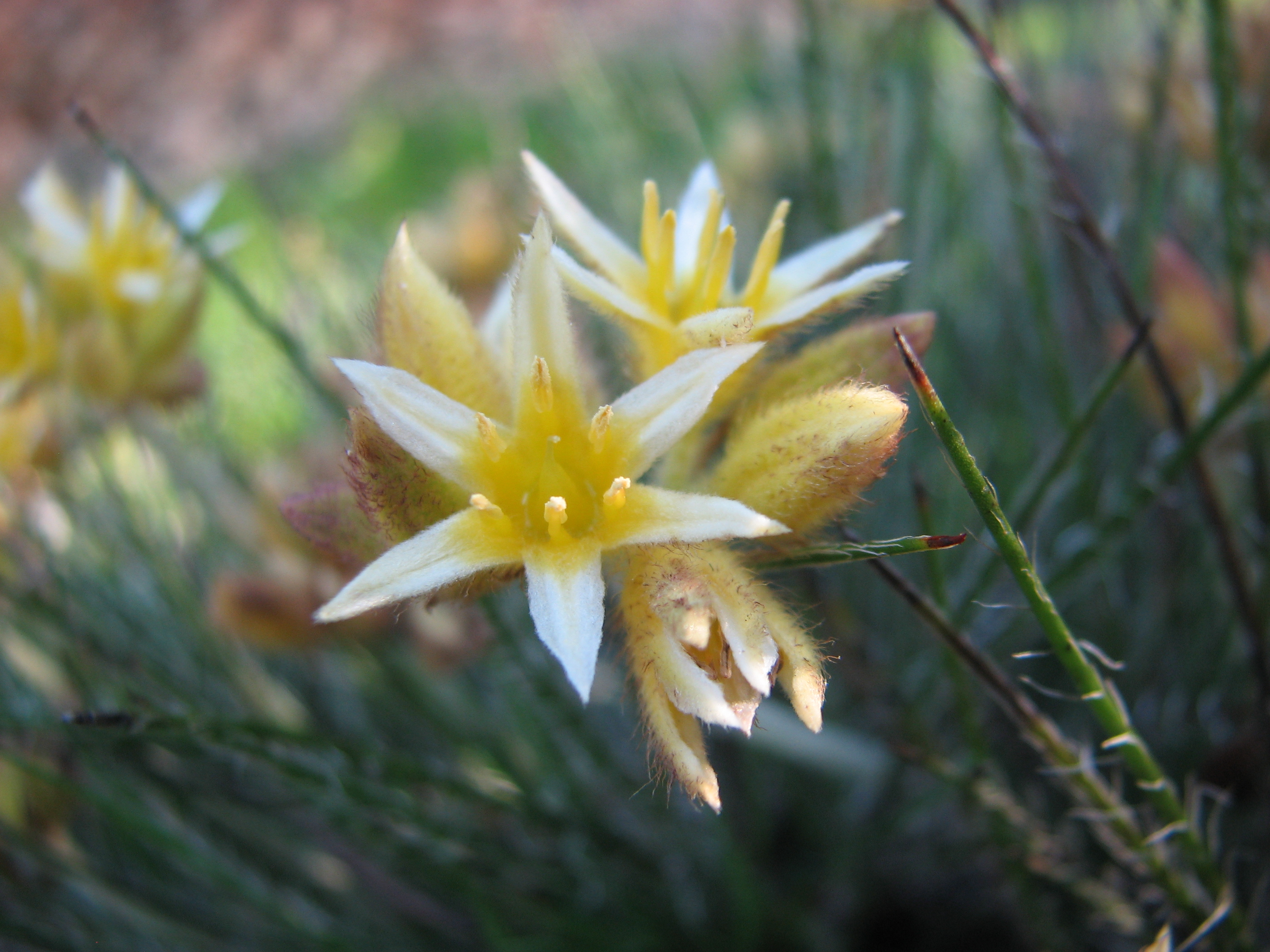 Conostylis setigera (cultivated, labelled), Maranoa Gardens, Balwyn, Victoria, Australia